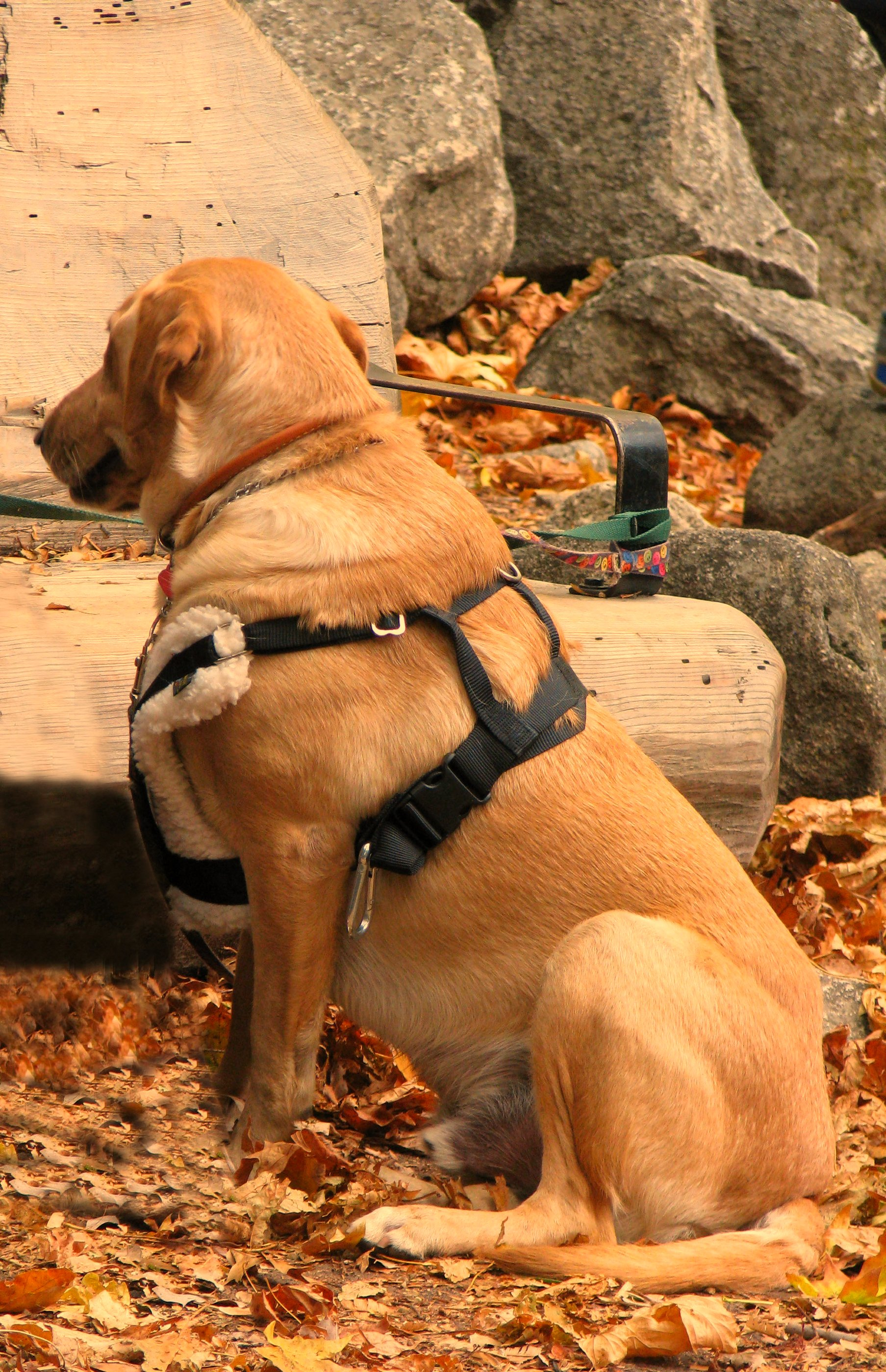 Tan dog-in-training sits among tan leaves